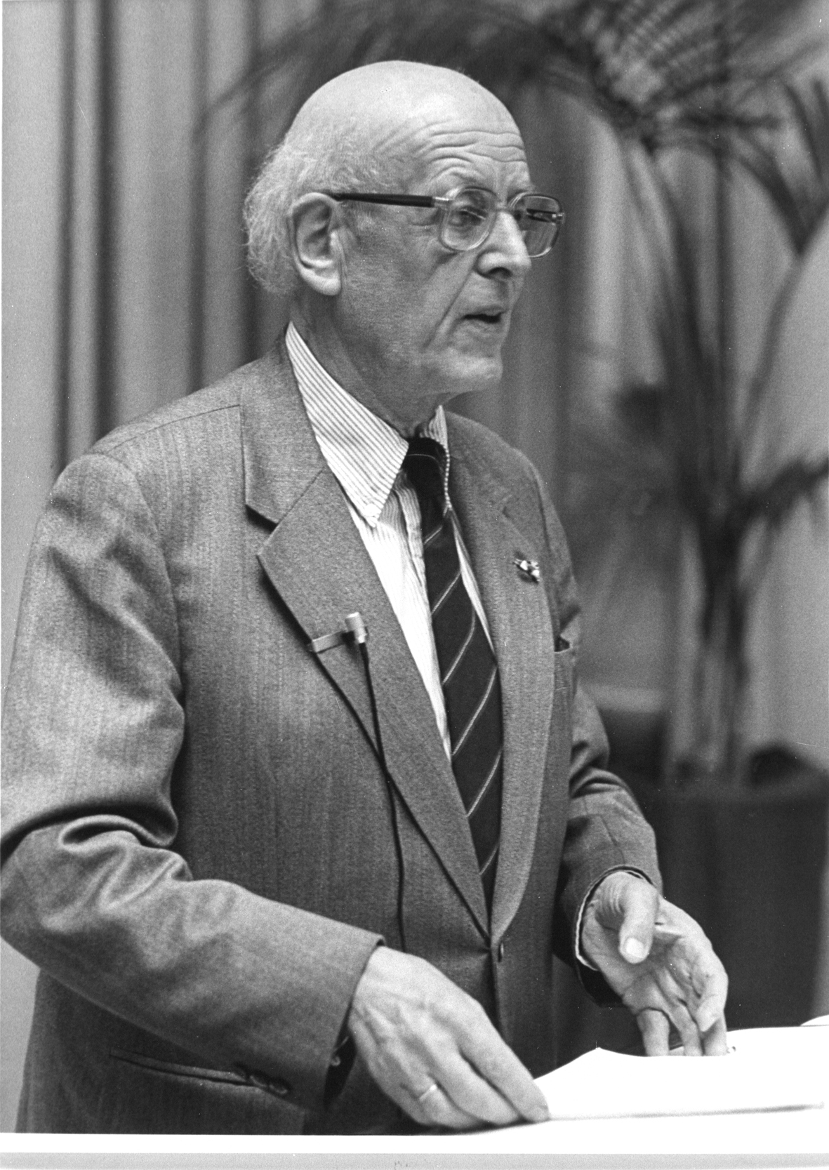 picture of Andries Querido